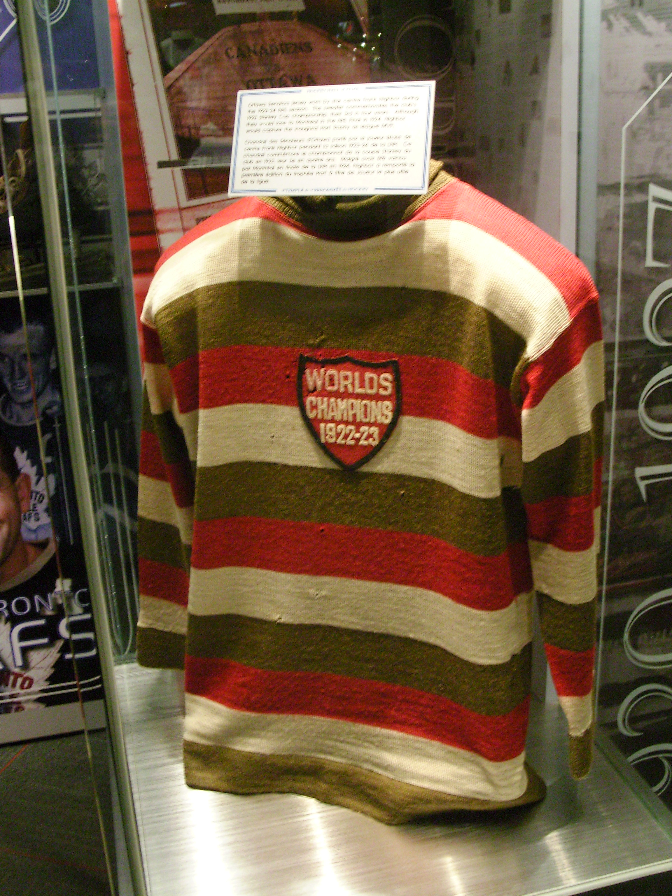 Photograph of Ottawa Senators jersey worn in 1923-24 NHL season, on display in the Hockey Hall of Fame in Toronto.